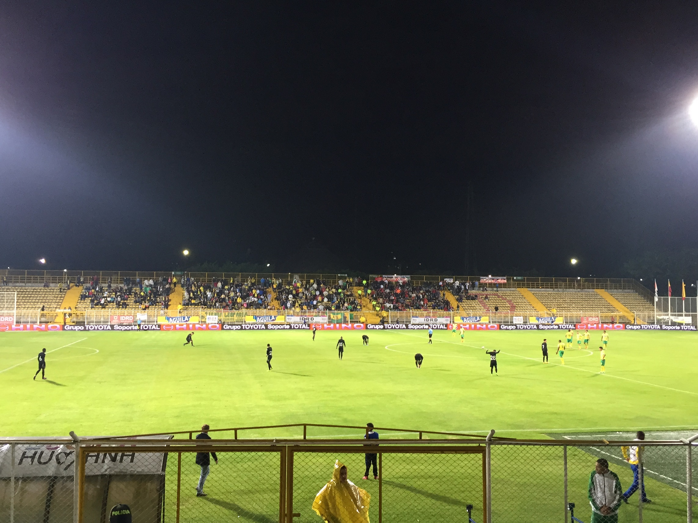 Techo Stadium in Bogota